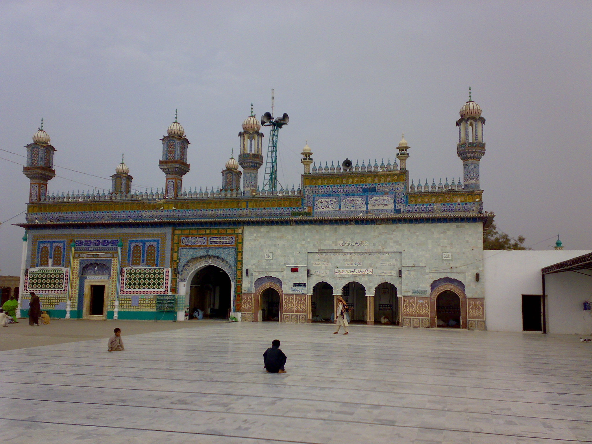 Shrine of Sufi Saint Sultan Bahoo in Garh Maharaja, Jhang, Punjab, Pakistan